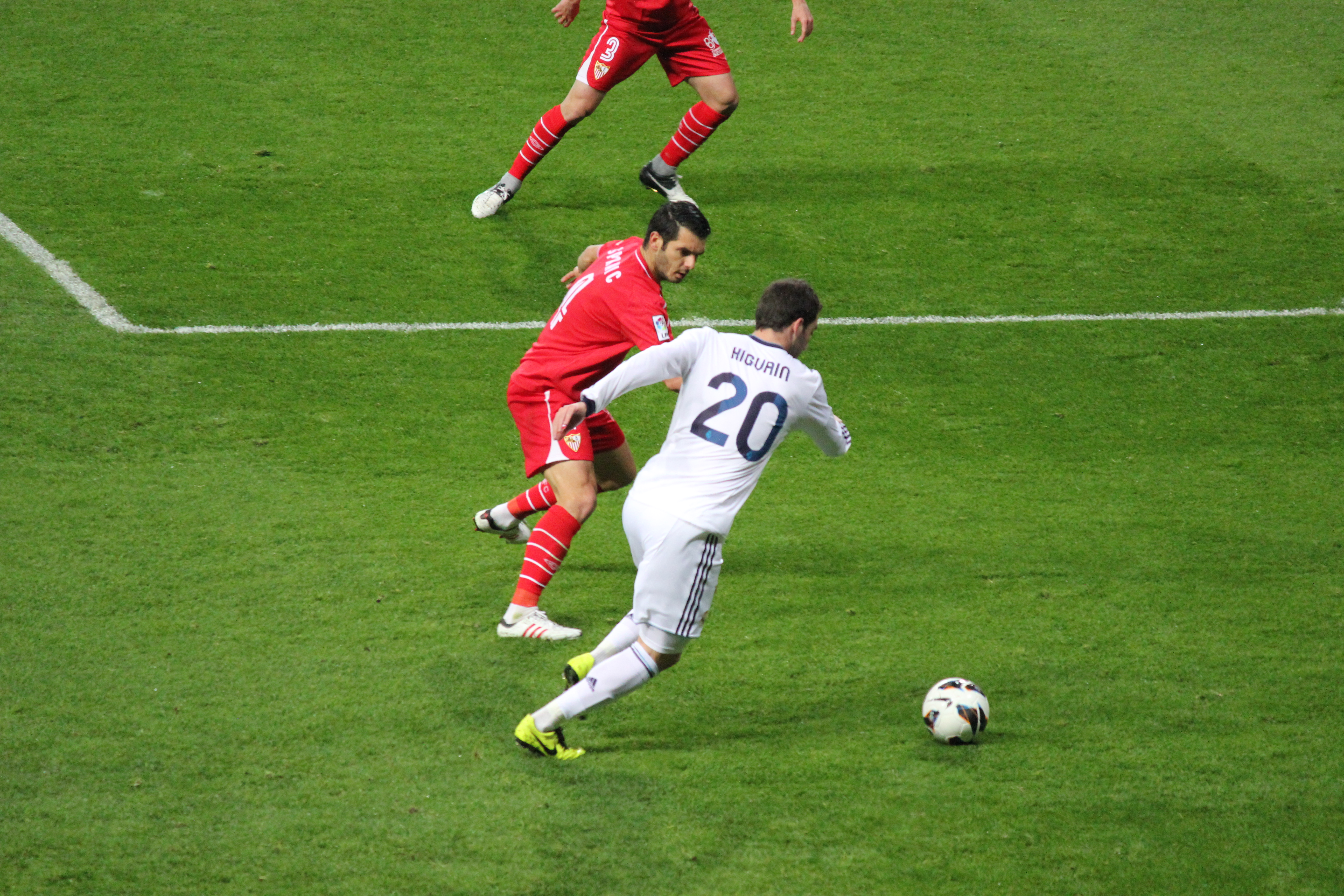 Real Madrid v Sevilla 10 February 2013 in a La Liga game at Real Madrid's home grounds.